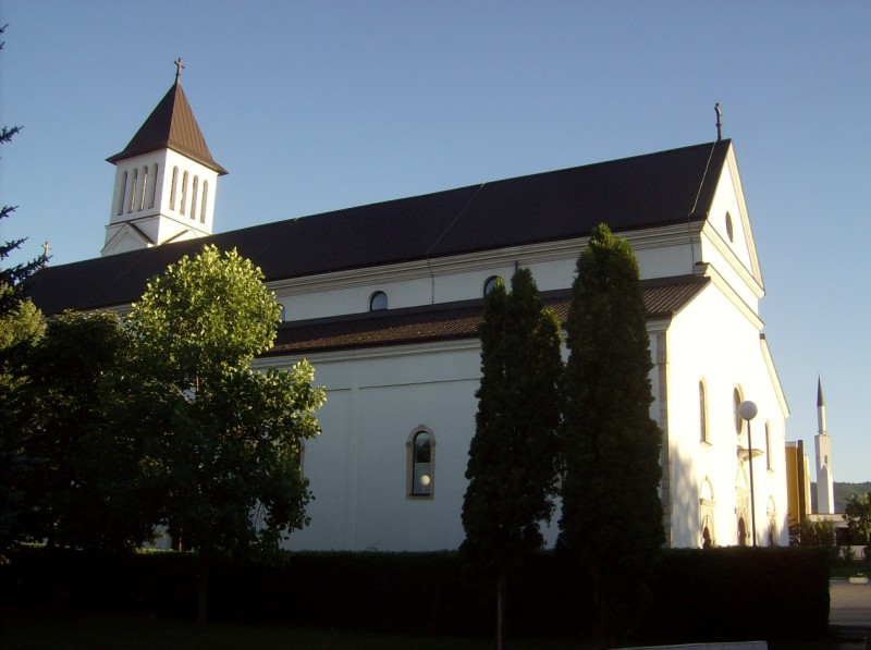 Catholic church in Bugojno, Bosnia and Hercegovina